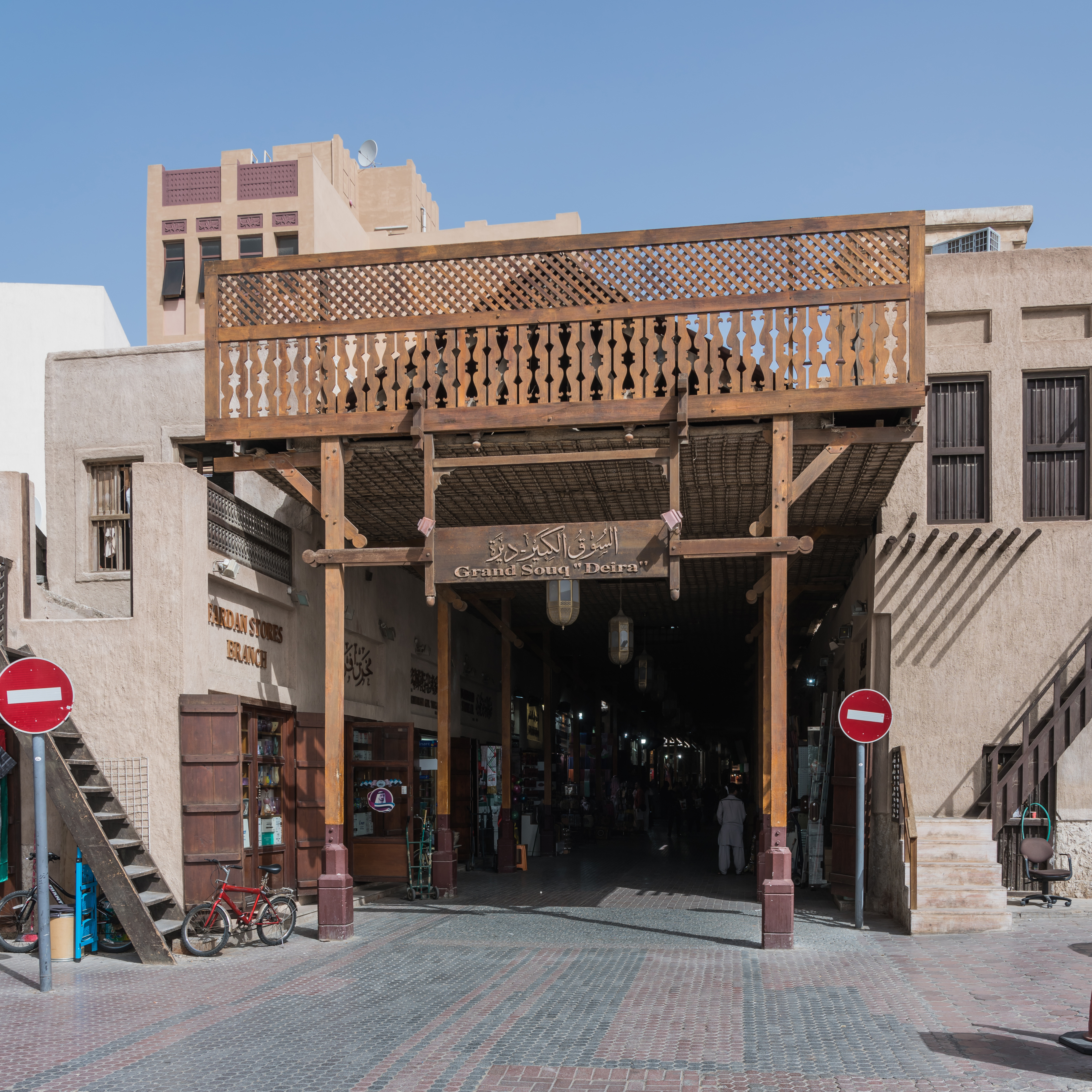 Spice Souq in Dubai / United Arab Emirates